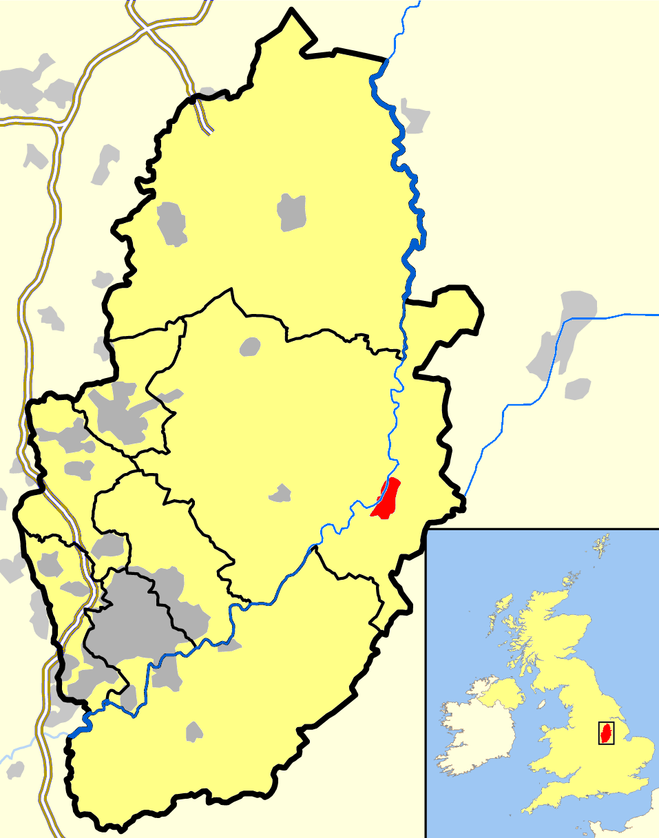 Nottinghamshire outline, showing motorways and urban areas. Derived from Open Street Map. Marking of Newark by Ulamm 10:12, 23 March 2008 (UTC) UK outline is Image:Uk outline map.png, which is licenced under the GFDL. Other versions: Image:Nottinghamshire Nottingham.png Image:Nottinghamshire Mansfield.png Image:Nottinghamshire outline map with UK.png